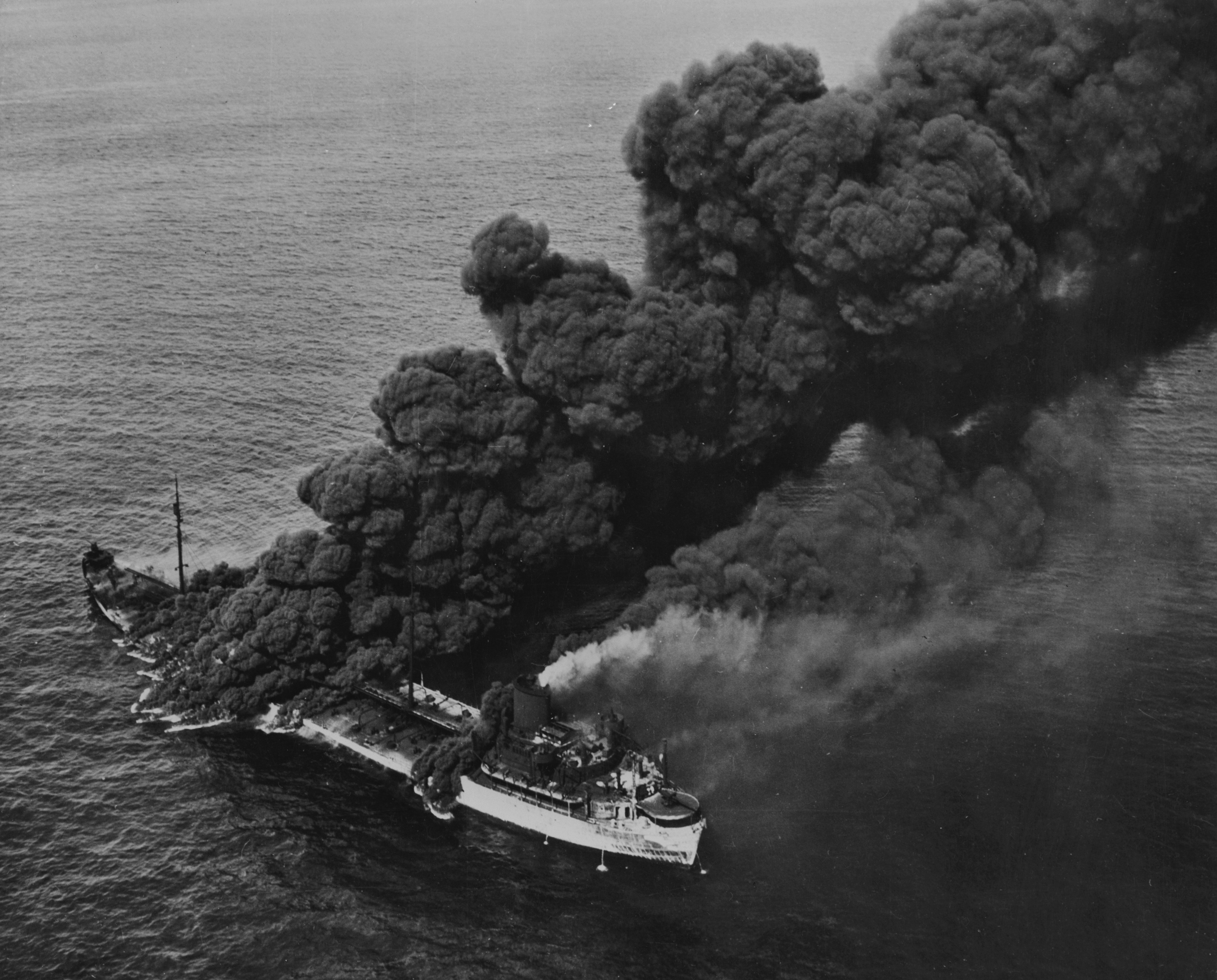 The U.S. oiler SS Pennsylvania Sun torpedoed by the German submarine U-571 on 15 July 1942, about 200 km west of Key West, Florida (USA). Pennsylvania Sun was saved and returned to service in 1943.